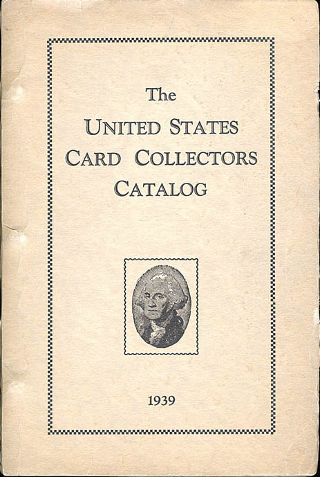 Cover of The United States card collectors catalog, a collector book about trading cards.